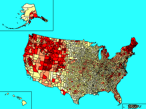 Map of Americans with Scottish ancestry. 0.0-0.9% 1.0-1.7% 1.8-2.7% 2.8-4.2% 4.3-9.1%